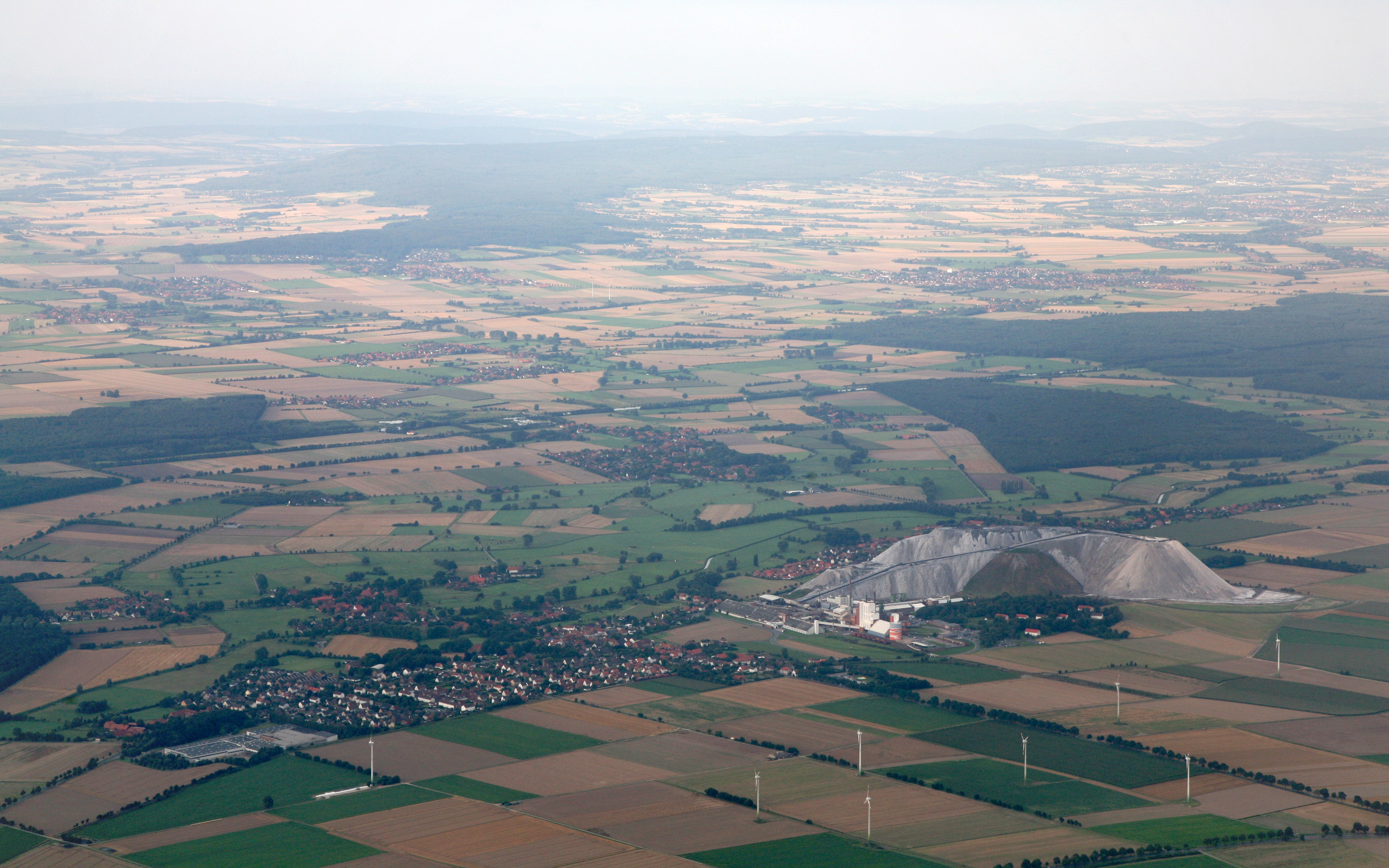 Aerial shot of the village of Bokeloh near Wunstorf in northern Germany. A rock-salt debris mountain towers over the village.